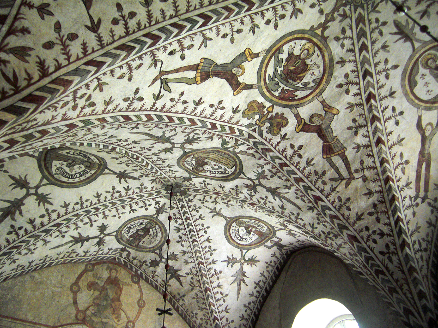 Mediaeval painted ceiling of Gökhem church, Vilske hundred, Falköping municipality, former Skaraborg county, the Diocese of Skara, Västergötland, Sweden.